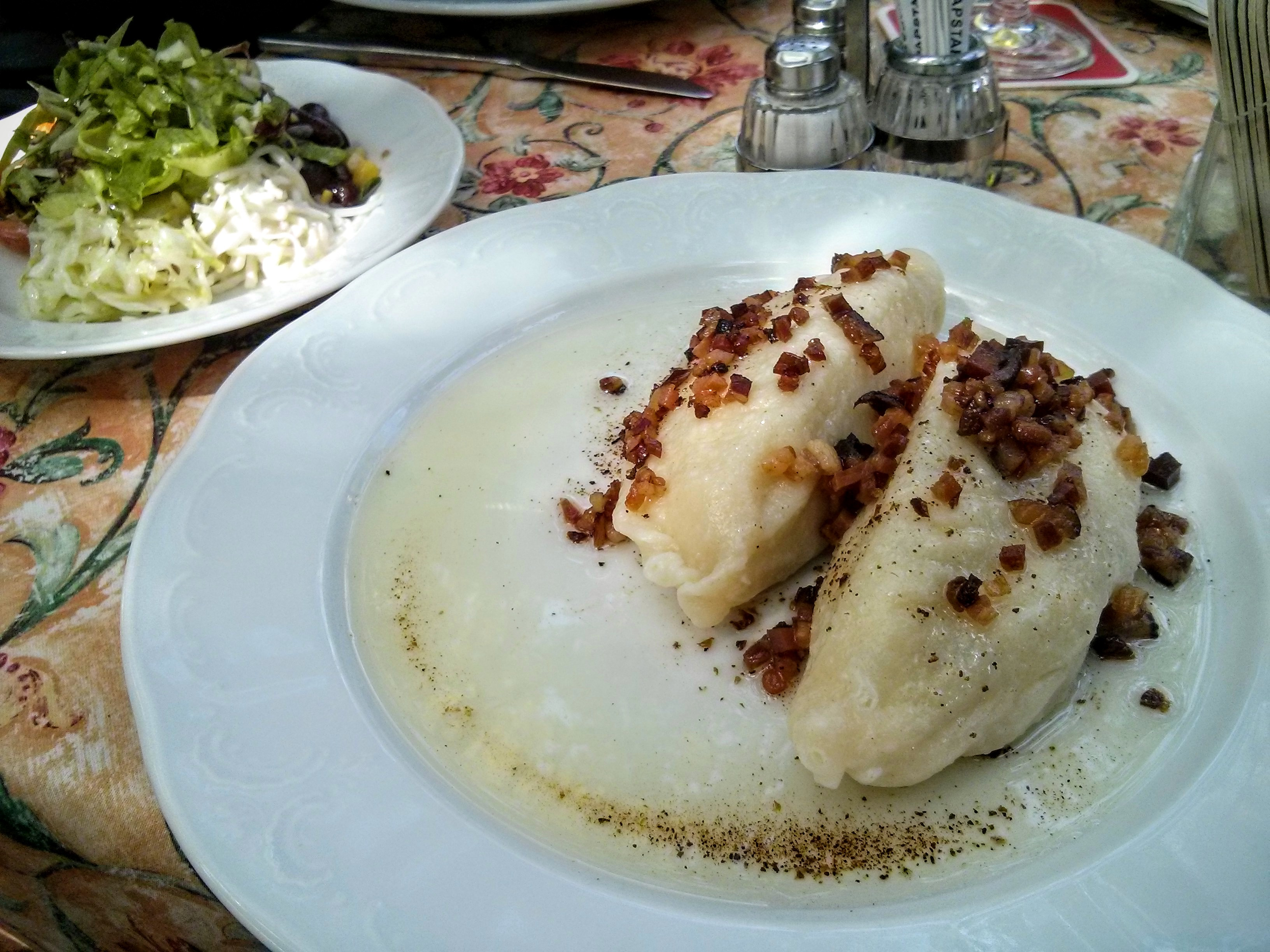 Carinthian noodles with diced bacon